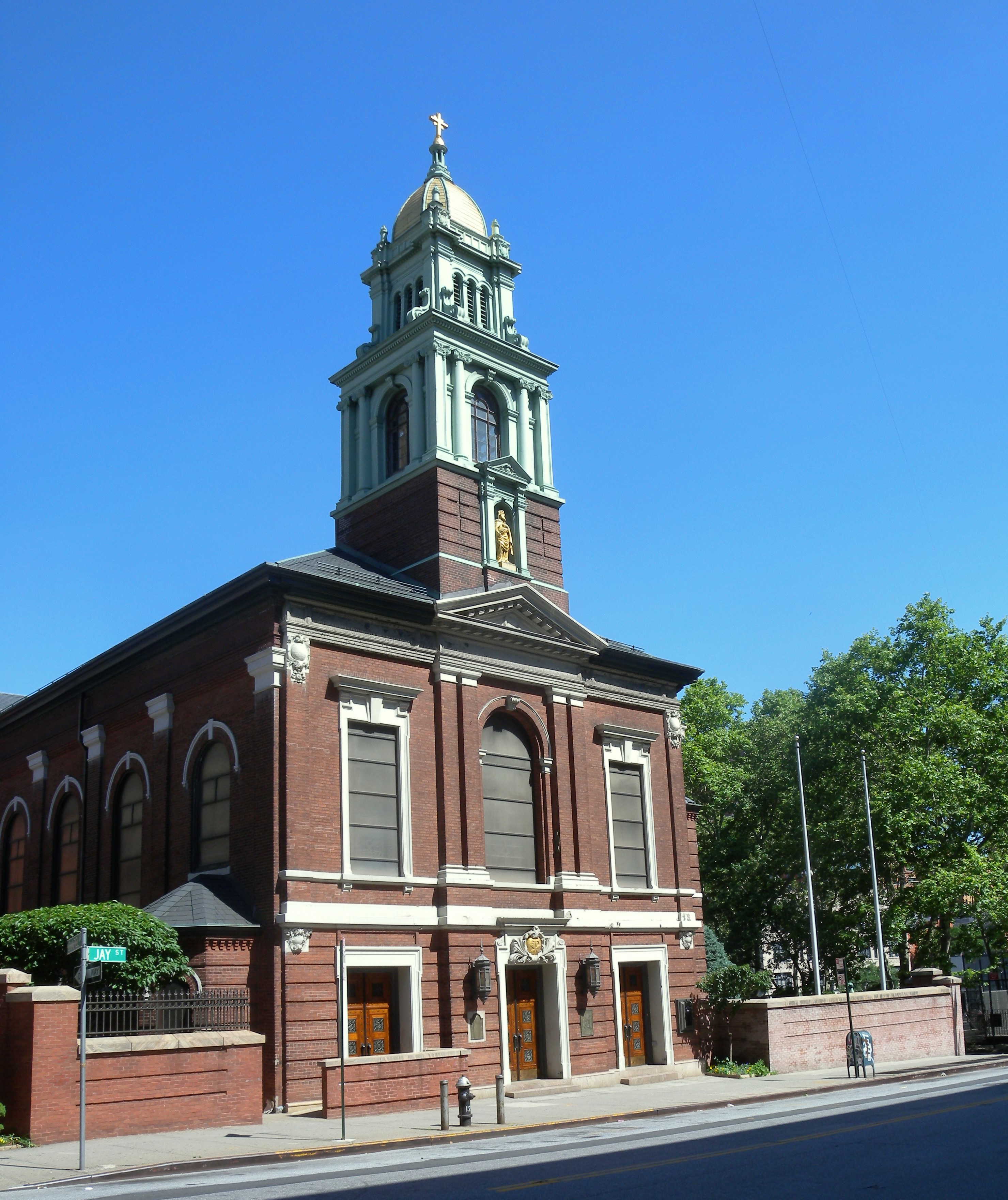 Looking south across Jay St on a sunny early afternoon.